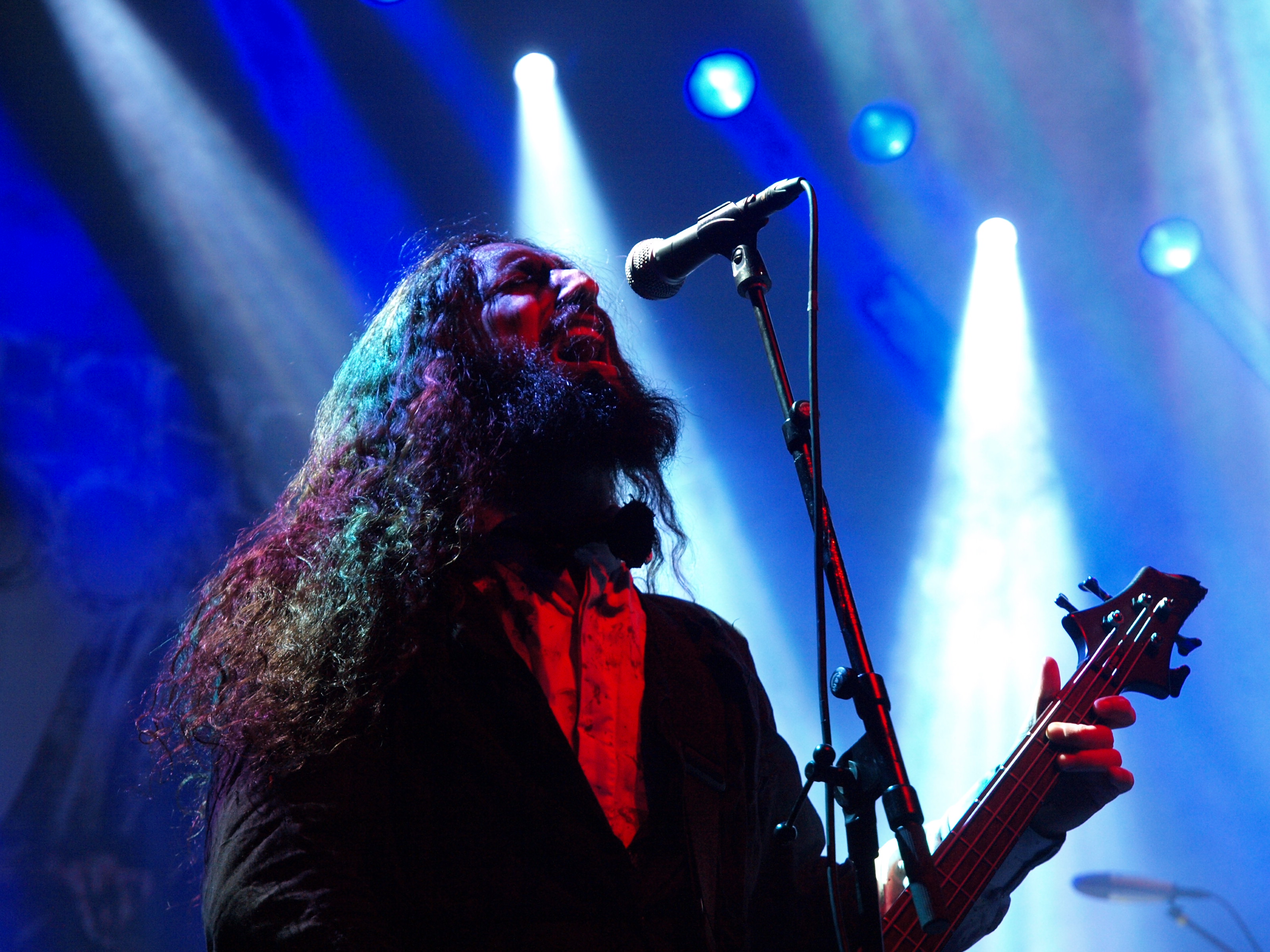 Fleshgod Apocalypse live at Finnish Metal Expo 2012 in Helsinki